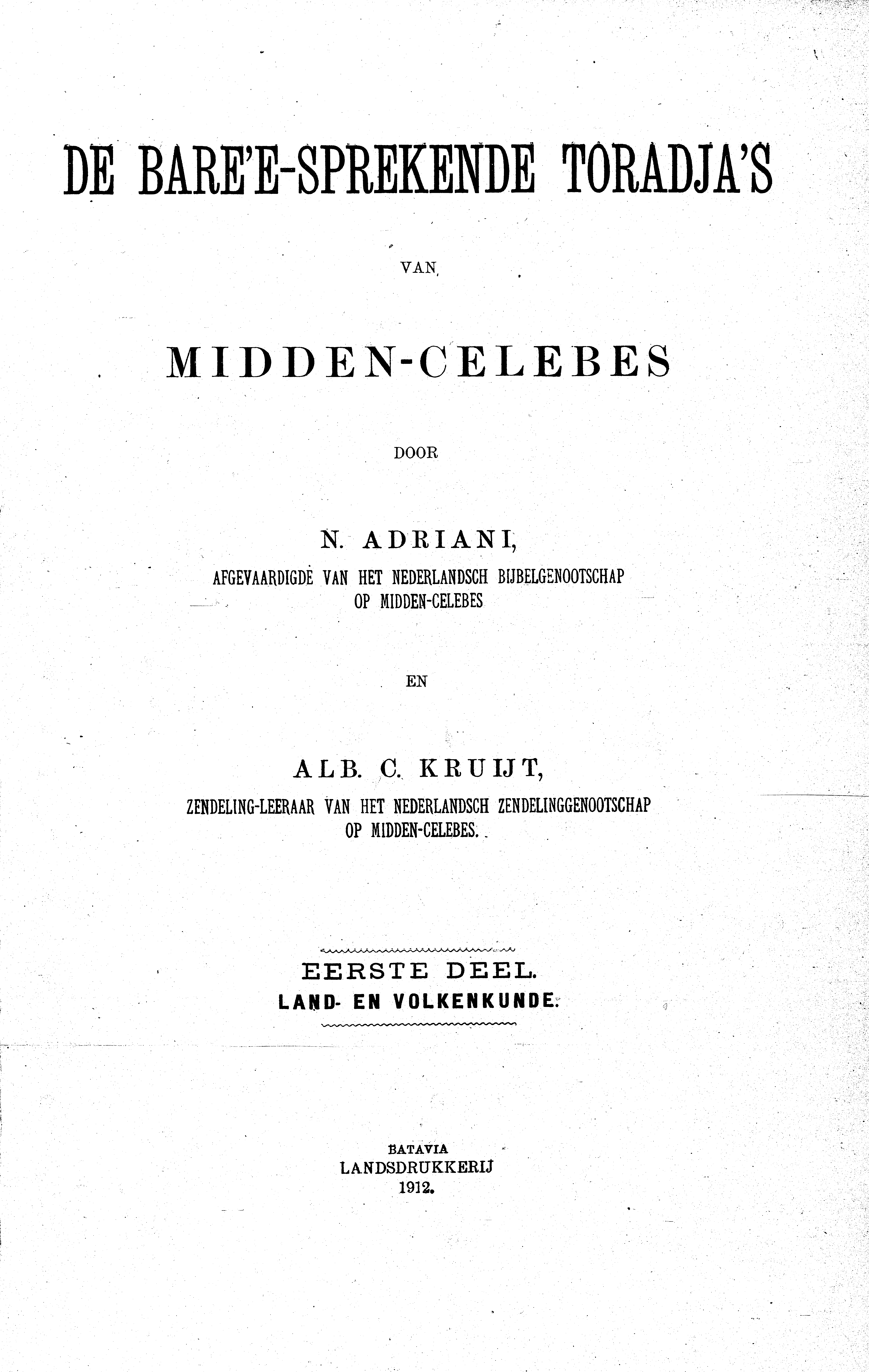 First page of the "De Bare'e-sprekende Toradja's van Midden-Celebes" (1912)